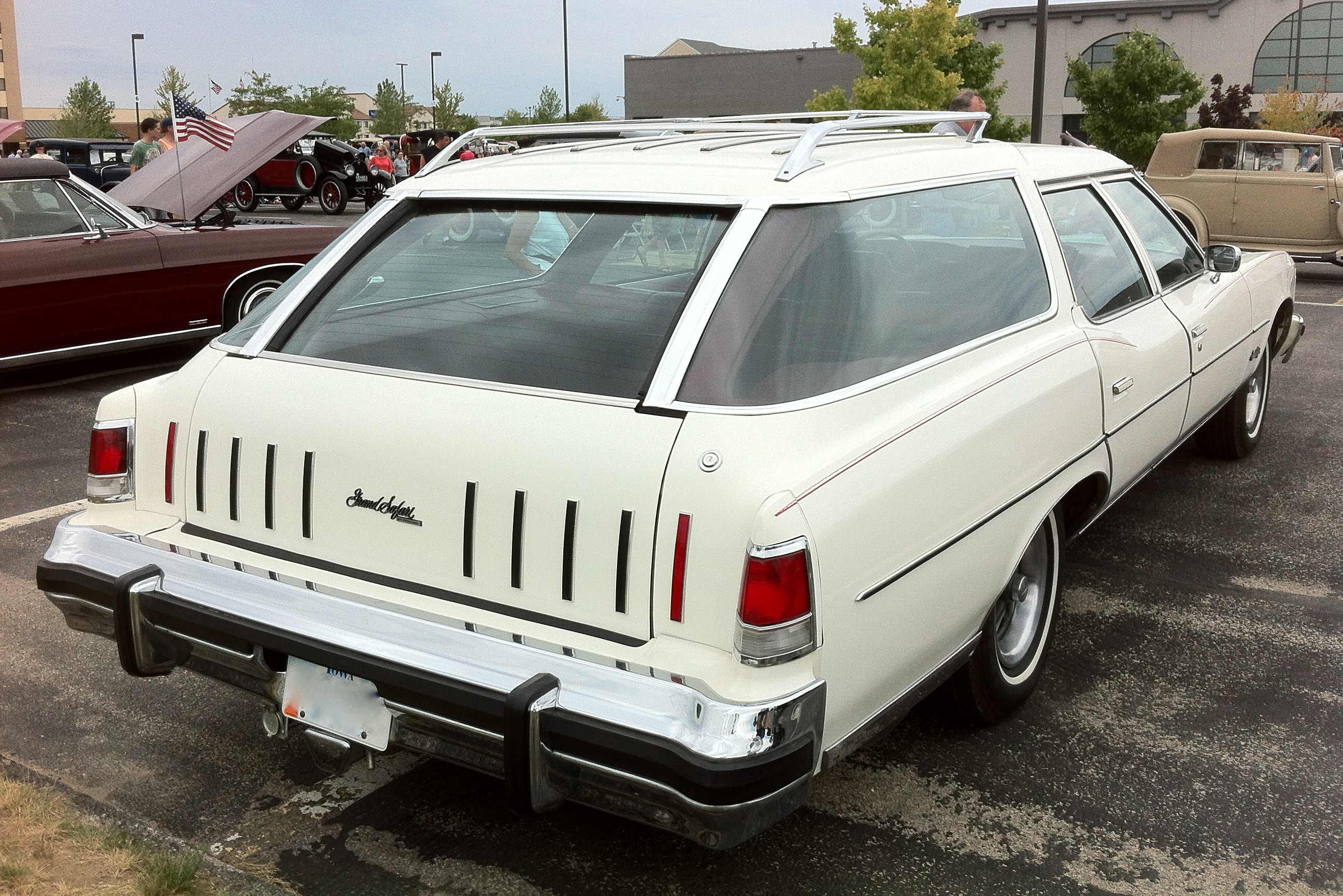 1975 Pontiac Grand Safari station wagon - rear view. Picture taken at the Central meet of the AACA held in Cedar Rapids, Iowa, USA.